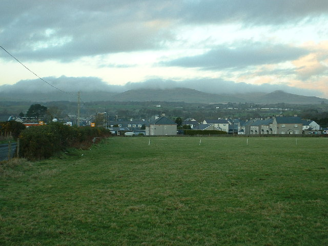 Looking down on Y Ffor. With Moel Bronmiod in cloud in the distance.